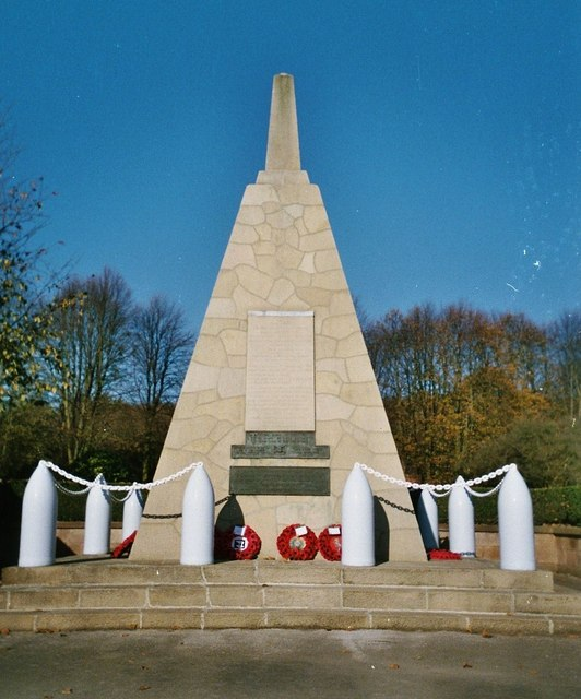 War Memorial